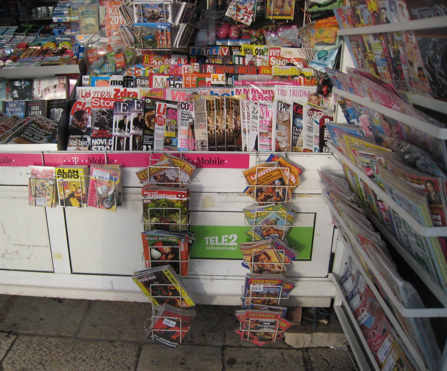 newsstand in Split, Croatia